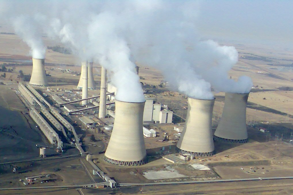 Arnot Power Station, Middelburg, South Africa